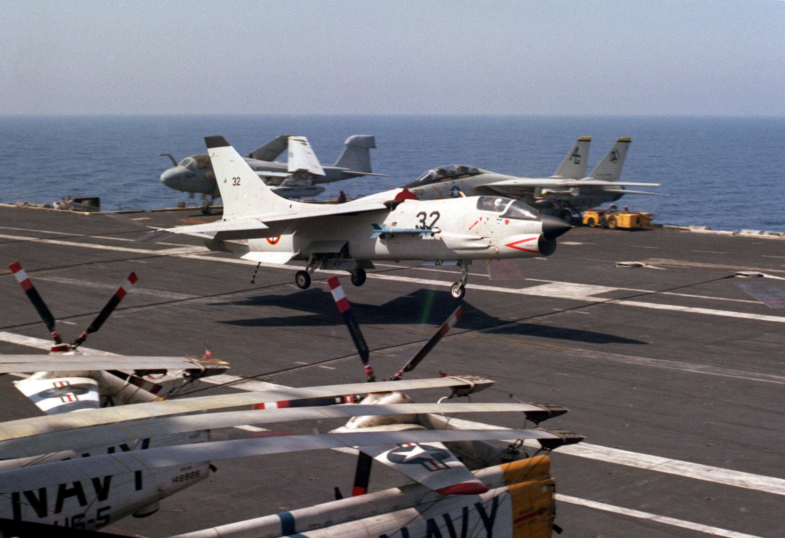 A Marine Nationale (French navy) Vought F-8E(FN) Crusader aircraft lands on the aircraft carrier USS Dwight D. Eisenhower (CVN-69) during joint operations off of Toulon, France in 1983. Visible are also a Grumman F-14A Tomcat of VF-142 Ghostriders, a Grumman EA-6B Prowler of VAQ-132 Scorpions, and the tails of two Sikorsky SH-3H Sea King helicopters of HS-5 Night Dippers.